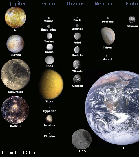 Size of some objects of the Solar system, pixel=50km